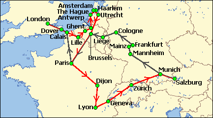 Map of the major places visited by the Mozart family in their Mozart family Grand Tour of Europe. Modern national boundaries are shown for reference.